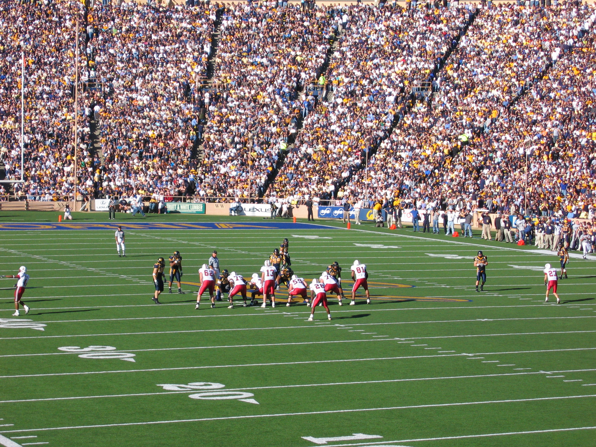 Photo taken by Poppy in November 2004. Big Game 2004 (Cal-Stanford) : Play